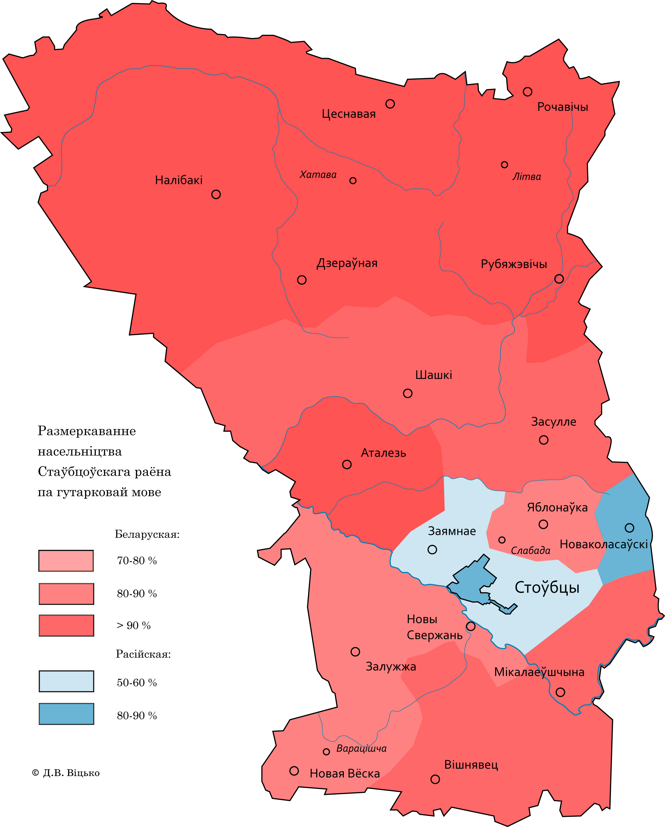 language composition of the population of Stowbtsy Raion 2009